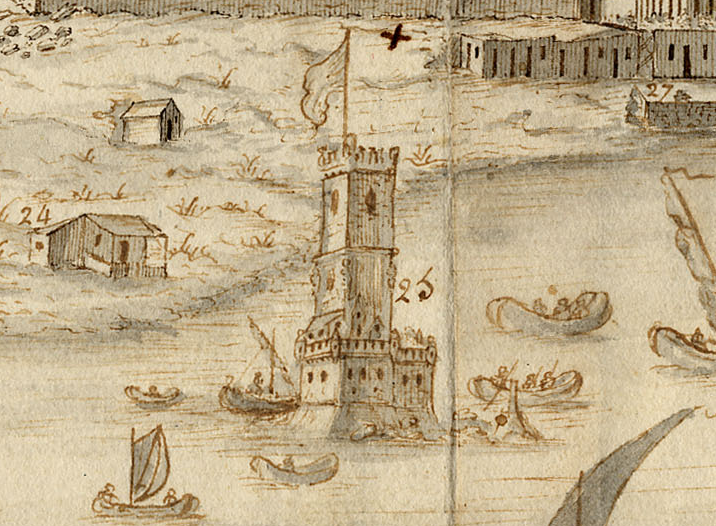 The Belém Tower, in Vista e perspectiva da Barra, Costa e Cidade de Lisboa by Bernardo de Caula, 1763.